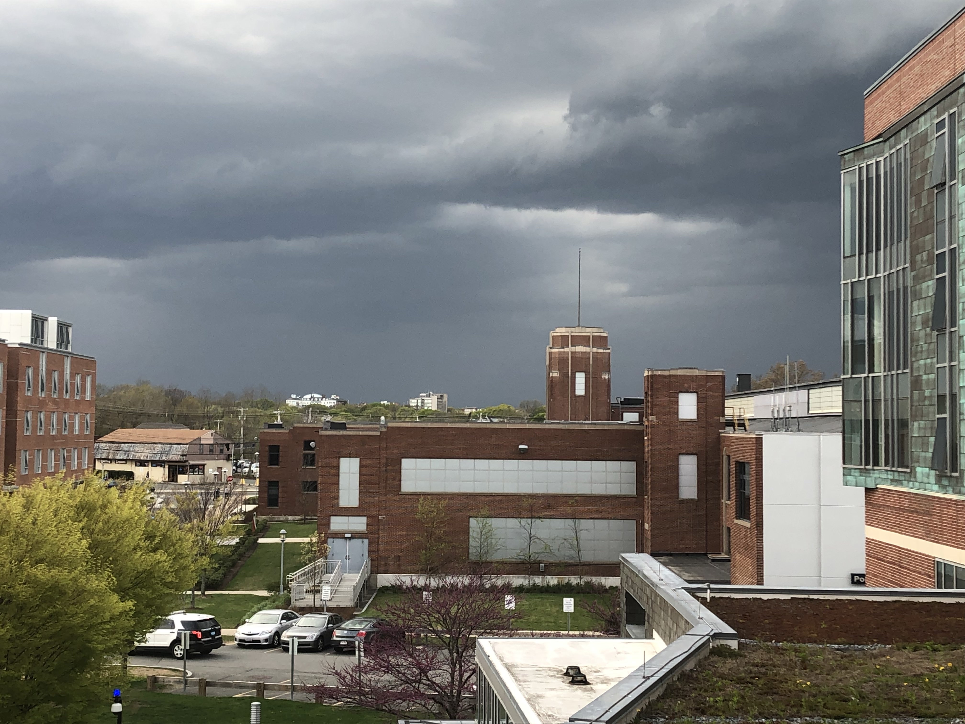 Salem State Central Campus looking Northwest from Marsh Hall towards the Bertolon Building (Front) and Viking Hall (Left), May 7, 2019.